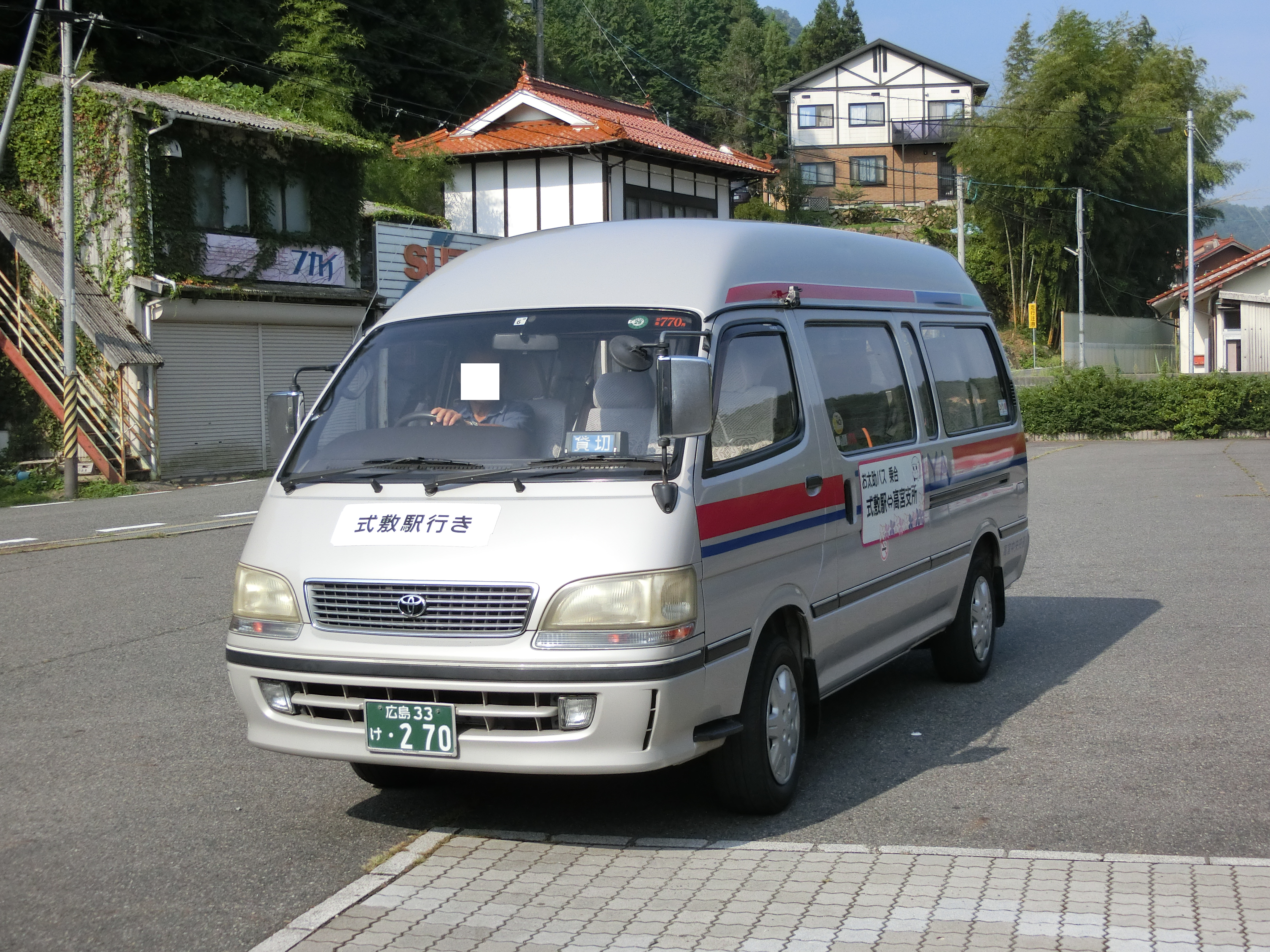 Car of Otasuke Bus Takamiya Line (run by Takamiya Central Transport). The picture is taken at Shikijiki Station.